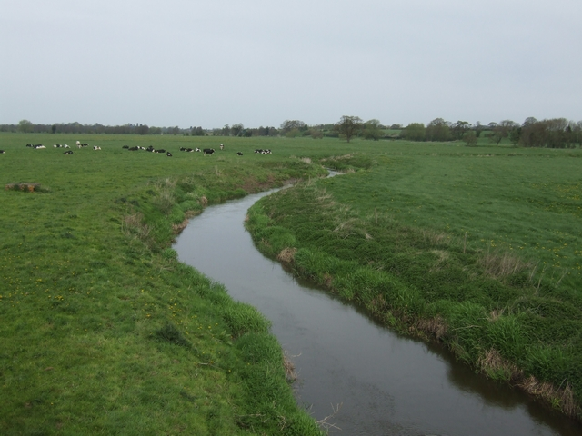 River Tern upstream of the bridge at Stoke on Tern